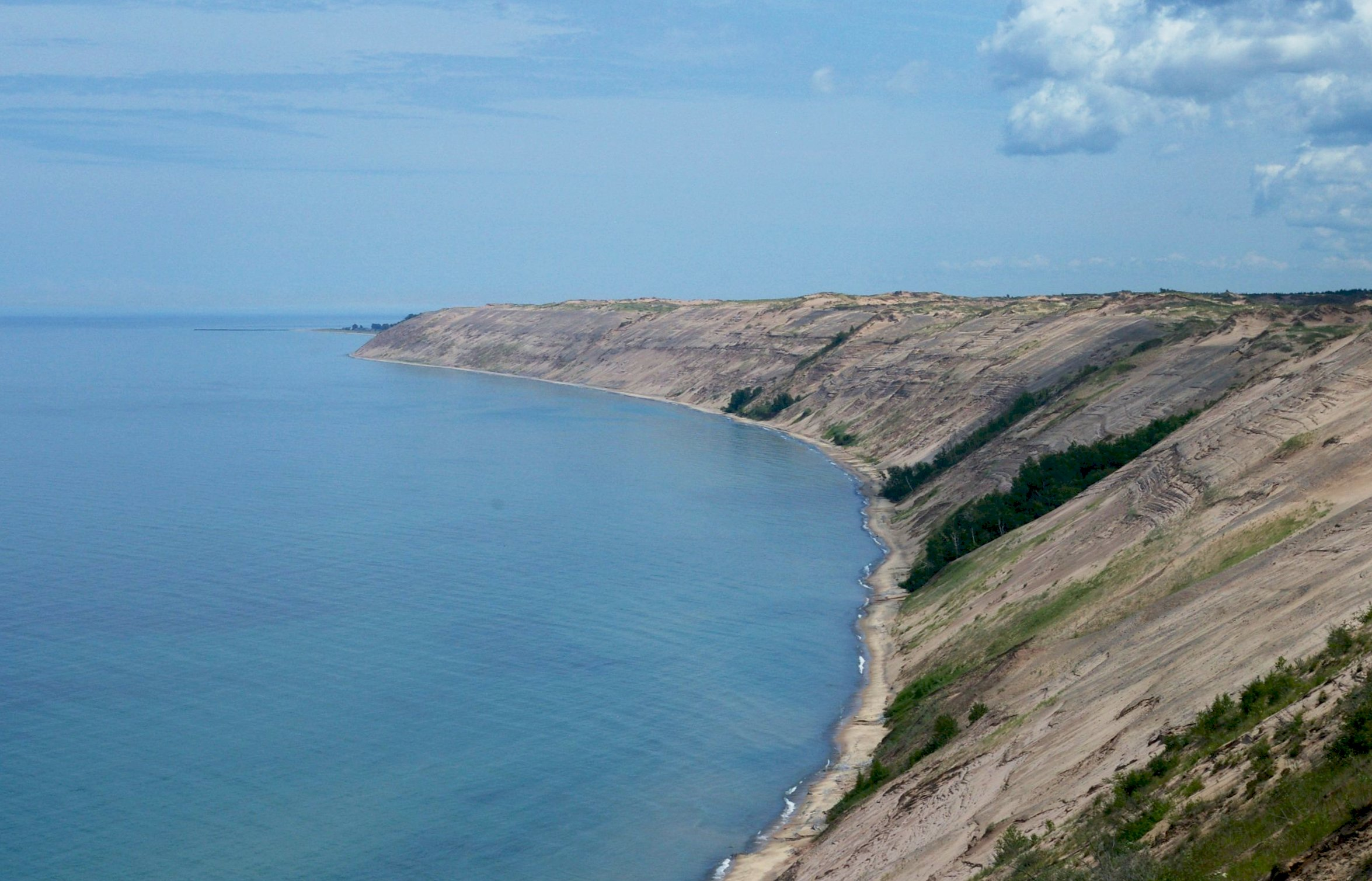 A view of the Grand Sable Banks and dunes looking east towards Grand Marais from the location of the former log slide. Pictured Rocks National Lakeshore.